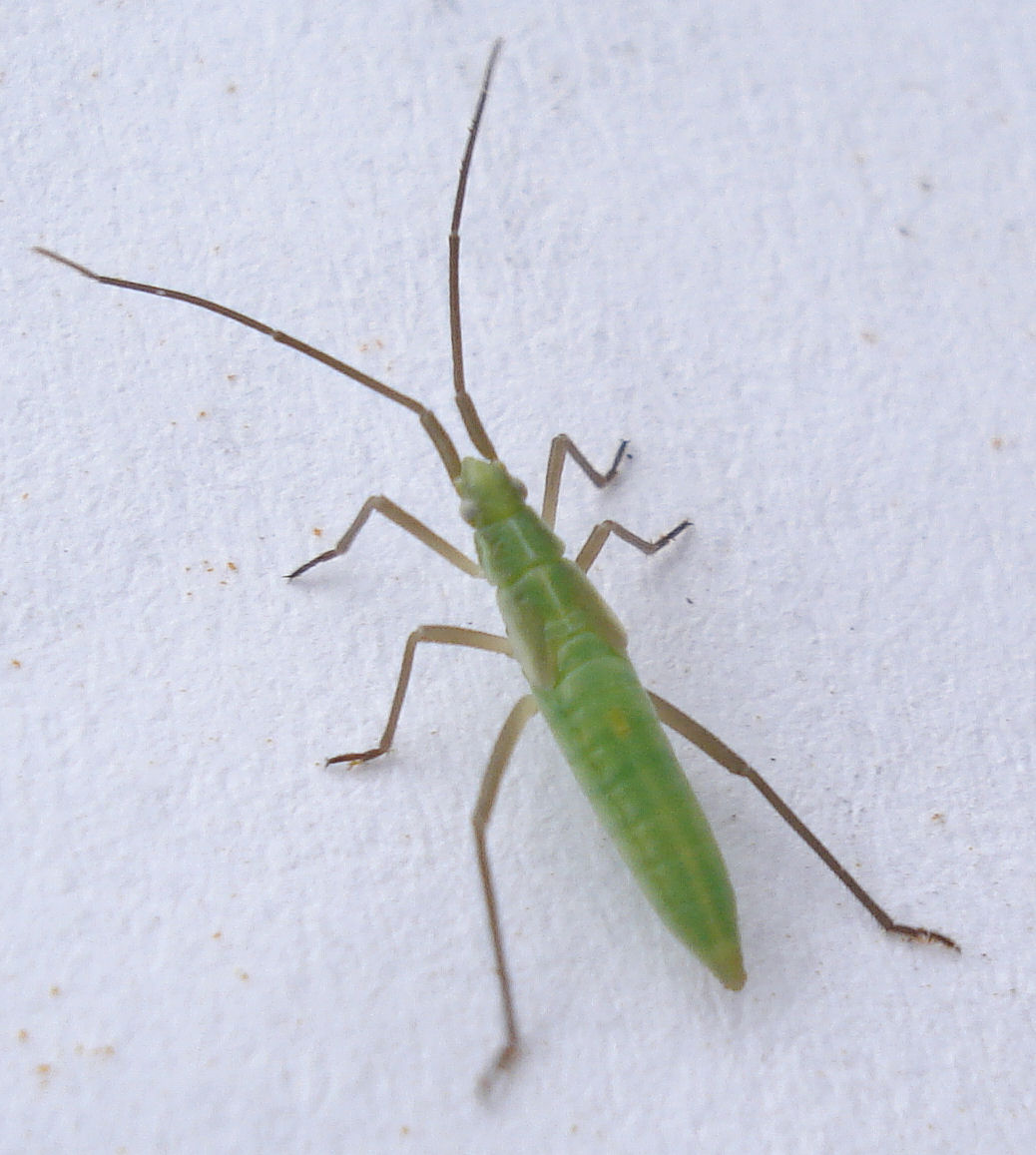 Nymph Megaloceroea recticornis